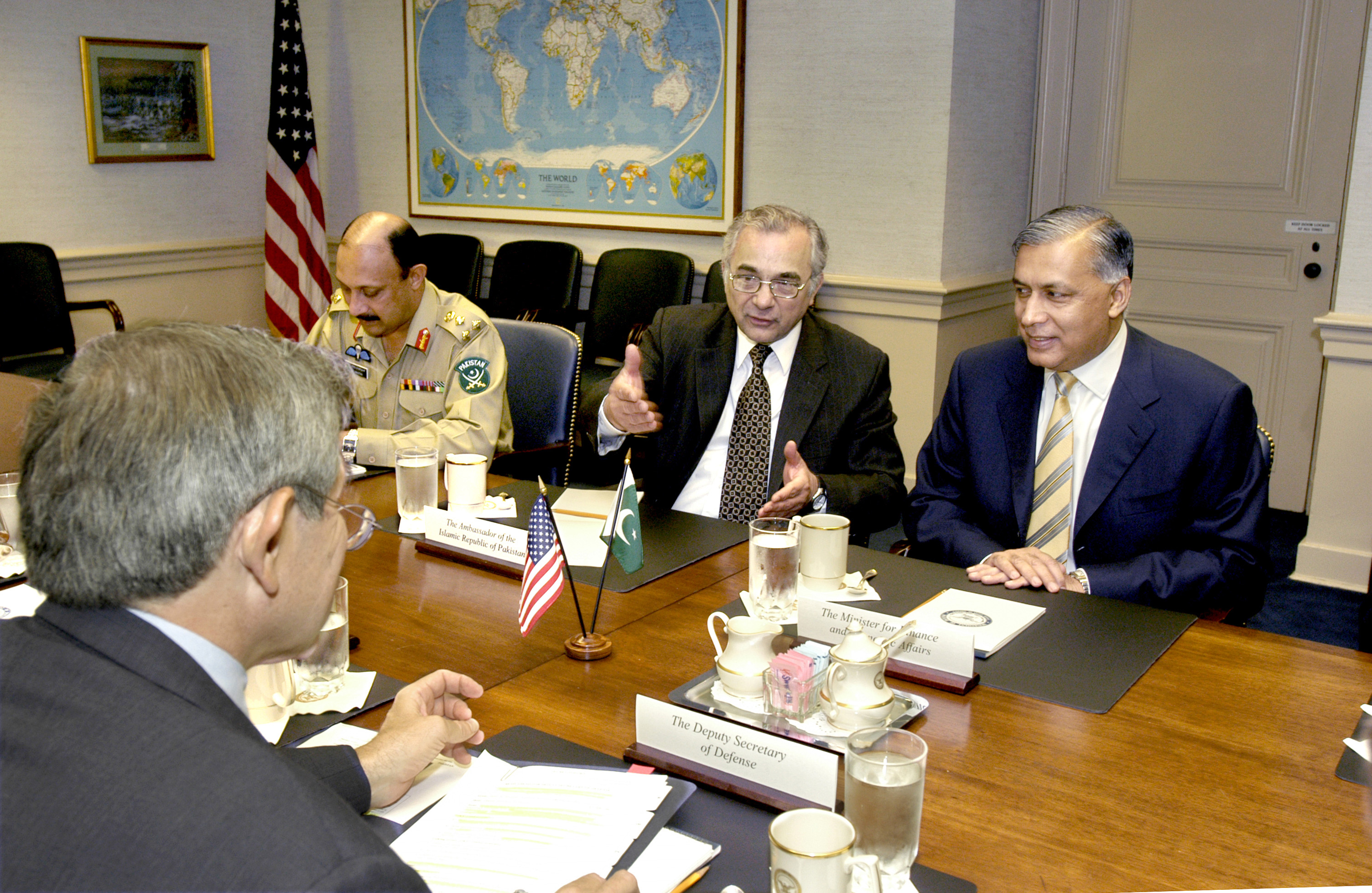 A Pakistani delegation led by Minister of Finance and Economic Affairs Shaukat Aziz (right) meets with Deputy Secretary of Defense Paul Wolfowitz (foreground) in the Pentagon on April 22, 2004. A broad range of bilateral security issues were discussed with an emphasis on the global war on terrorism. Also participating in the talks are Pakistani Ambassador Ashraf Jehangir Qazi (center) and the Defense AttachÃ© at the Pakistani Embassy Brig. Gen. Shafqaat Ahmad (left, far-side of table).